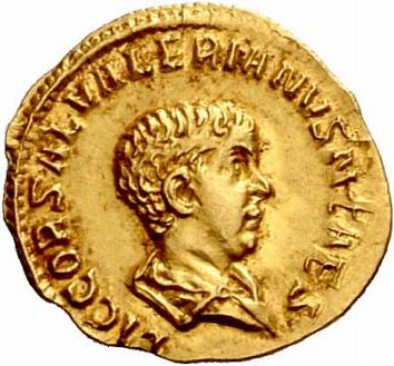 Saloninus caesar, 258 – 260, Aureus, Rome 258, AV 2.23 g. LIC COR SAL VALERIANVS N CAES Bare-headed and draped bust r. C 48. Calicó 3688 (these dies). Delbrueck pl. 13, 23.